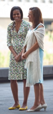 Michelle Obama at the Museum of Anthropology, Mexico, with Margarita Zavala, 14 April 2010. The First Lady of the US is wearing a Diane von Furstenberg wrap dress.